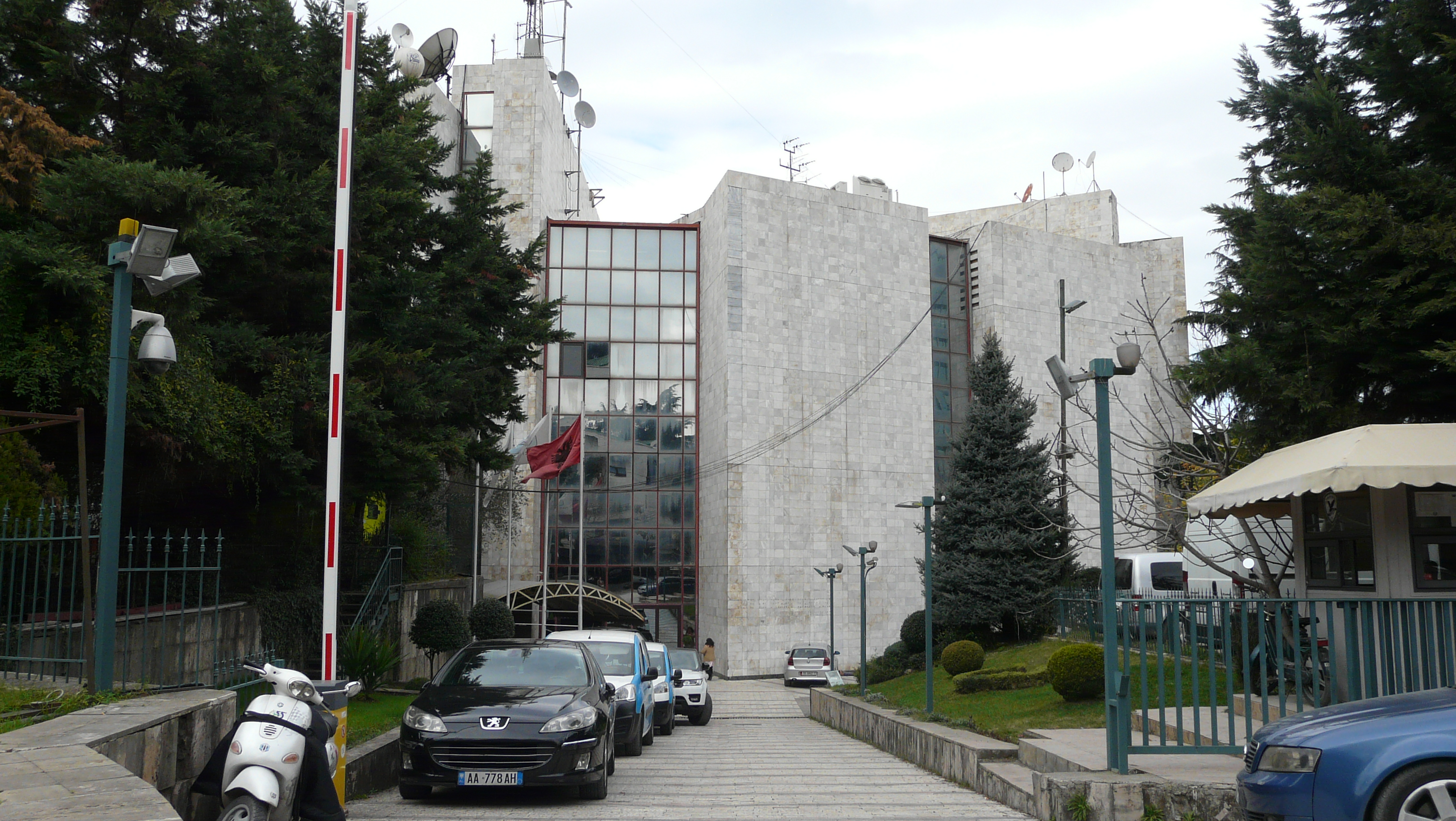 The Pyramid represents, definitely one of the most complex, and special buildings representative of the historical, cultural and political discourse of the city of Tirana. The project for the Pyramid was realized from a group of architects Pranvera Hoxha(Enver Hoxha’s doughter), Klement Kolaneci, Pirro Vaso and Vladimir Bregu in a total amount of time of three years with the main purpose of being the Communist Diktator’s Mausoleum, Museum of Enver Hoxha. In 1988 the building became functional and worked as such until 1992 with the capitulation of the Communist regime. Afterwards the building went through several changes regarding its function. It was used as Conference hall, later as an humanitarian center around 1999 with the placement of the NATO headquarter in Kosovo. In 2001 Top Chanel headquarters was positioned there, making possible for it to be used at the same time as a space for a nightclubs or gathering political space the part of the courtyard. Today after several years of non appropriate maintenance and ignoring it in most of the time, there’s a new plan for its revitalization.